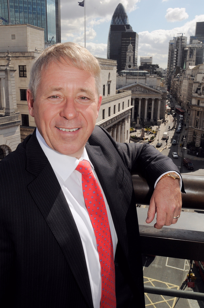 Trevor Matthews - Chief Executive Officer of Friends Provident